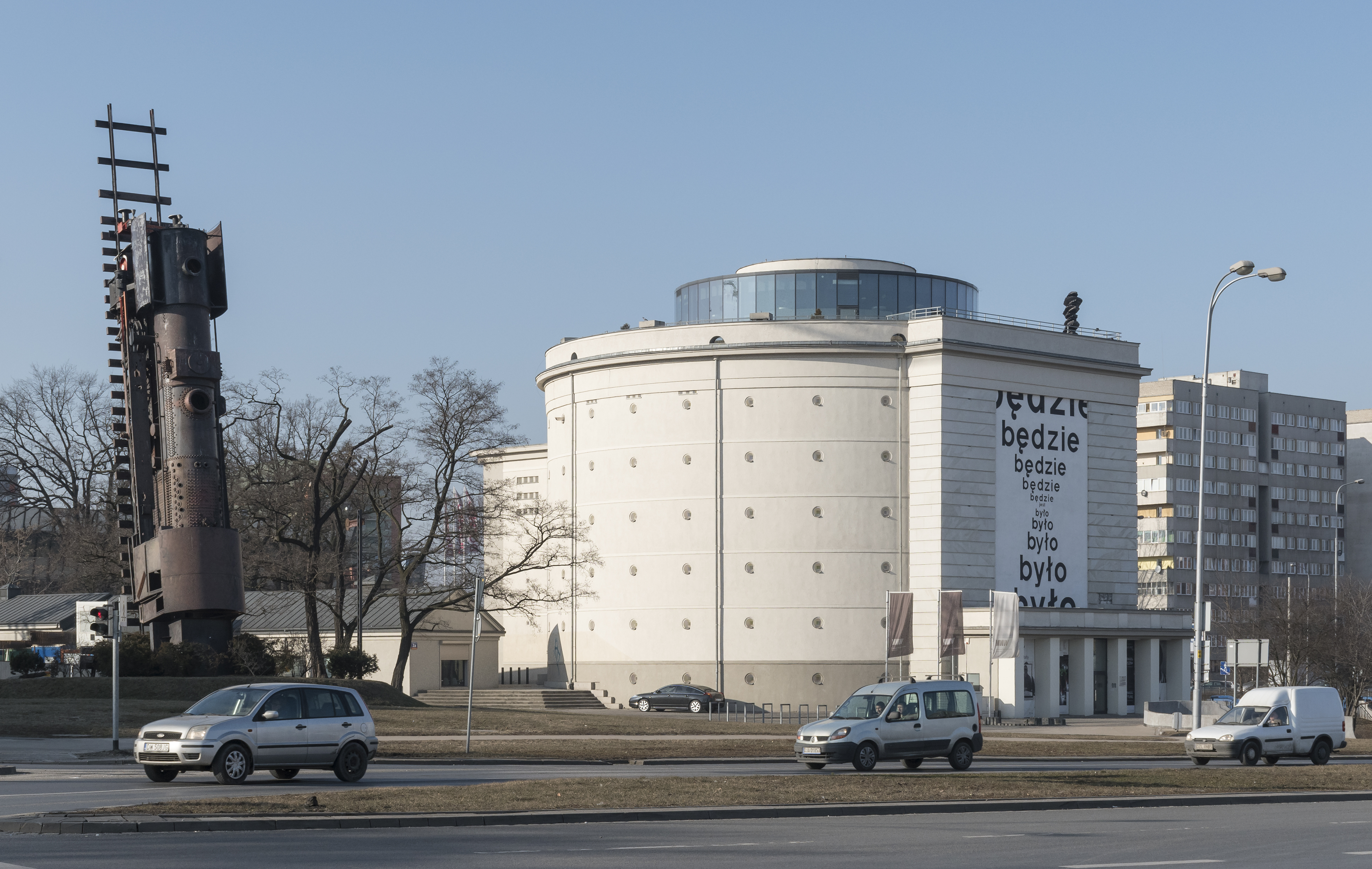 Wrocław Contemporary Museum